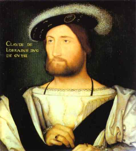 Portrait of Claude of Lorraine, 1st Duke of Guise